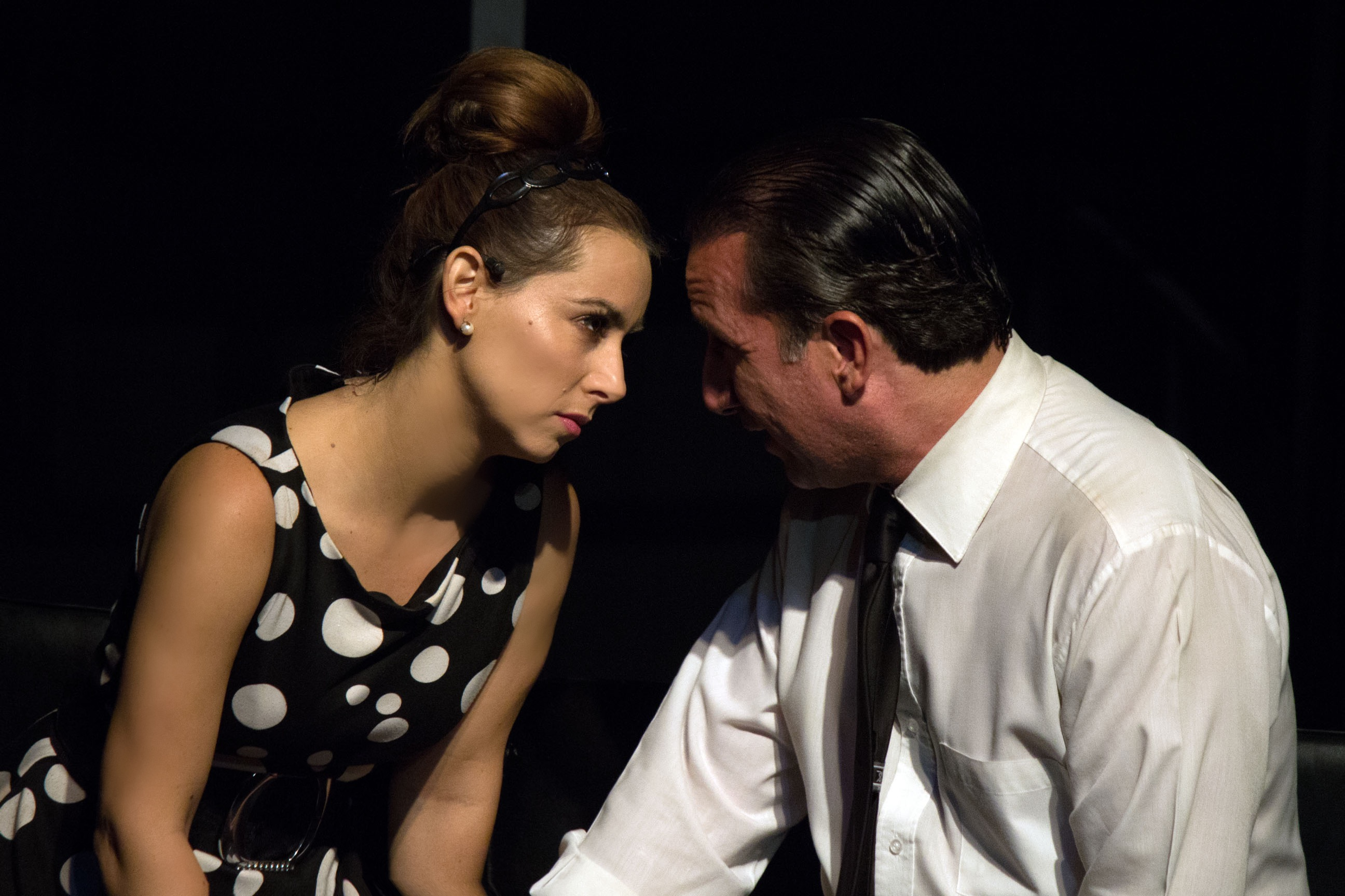 Claudia Lizaldi